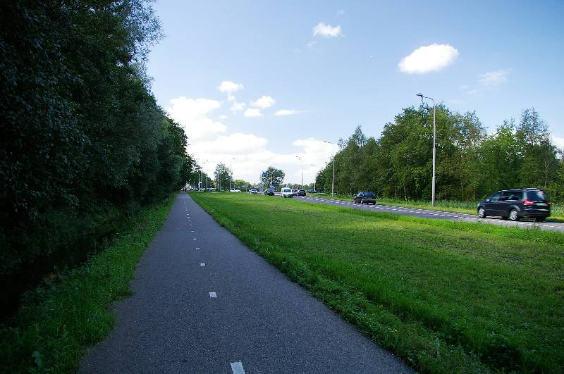 bicycle road (N236 Franse Kampweg) at Bussum, Netherlands